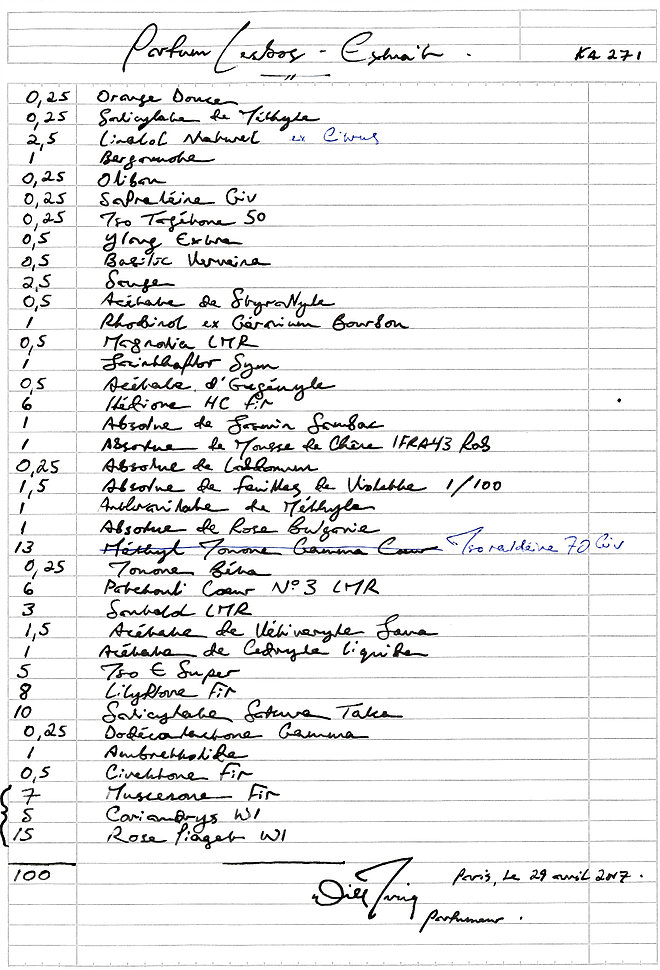 Formula for perfume Lesbos (extrait version) by perfumer Will Inrig. Signed and dated Paris, 29 April, 2017.